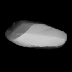 3D convex shape model of 1081 Reseda, computed using light curve inversion techniques. J. Hanuš, J. Ďurech, M. Brož, B. D. Warner (June 2011). "A study of asteroid pole-latitude distribution based on an extended set of shape models derived by the lightcurve inversion method". Astronomy and Astrophysics 530: A134. ISSN 0004-6361. arXiv